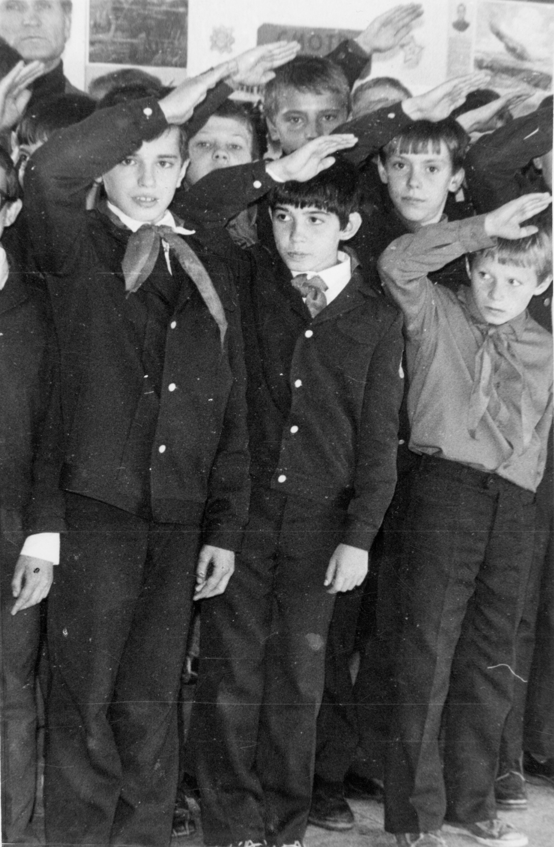 Dmitry Borshch (center), a member of the Young Pioneer Organization of the Soviet Union (Всесоюзная пионерская организация имени В. И. Ленина).